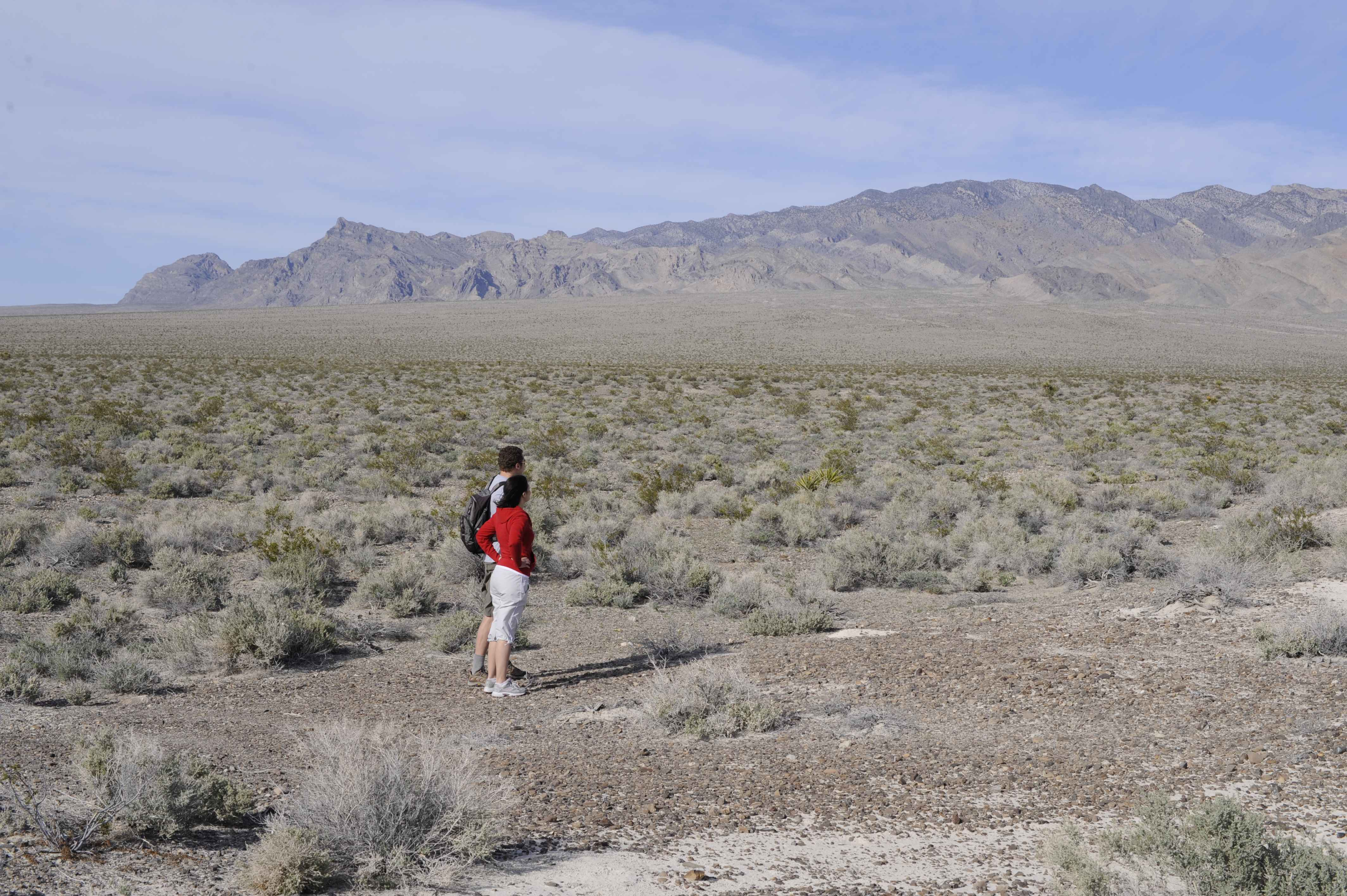 A man and woman stand in the foreground of a scenic view of the desert Image from Public domain images website